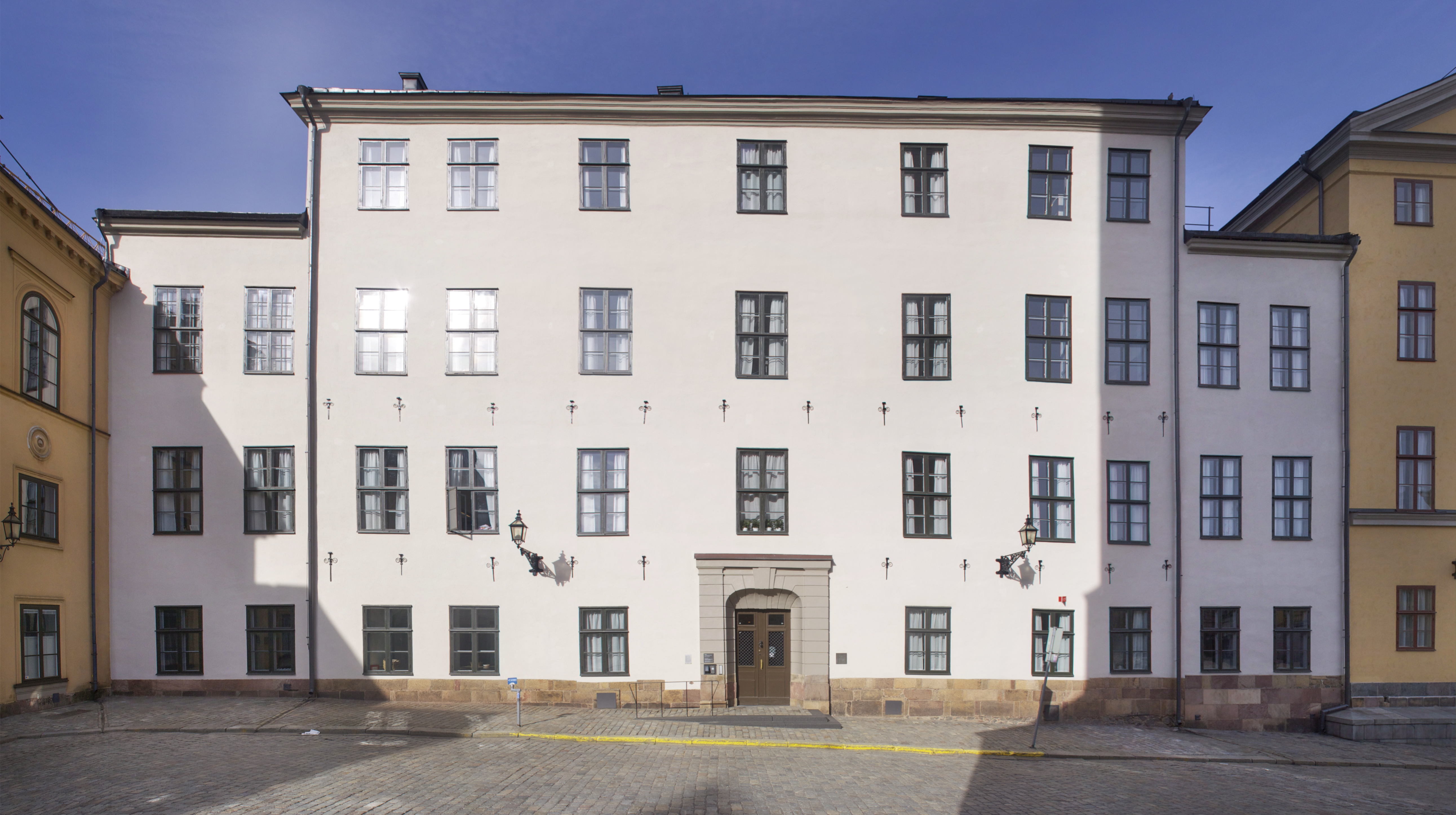 Sparre palace, Riddarholmen, Stockholm, Sweden.